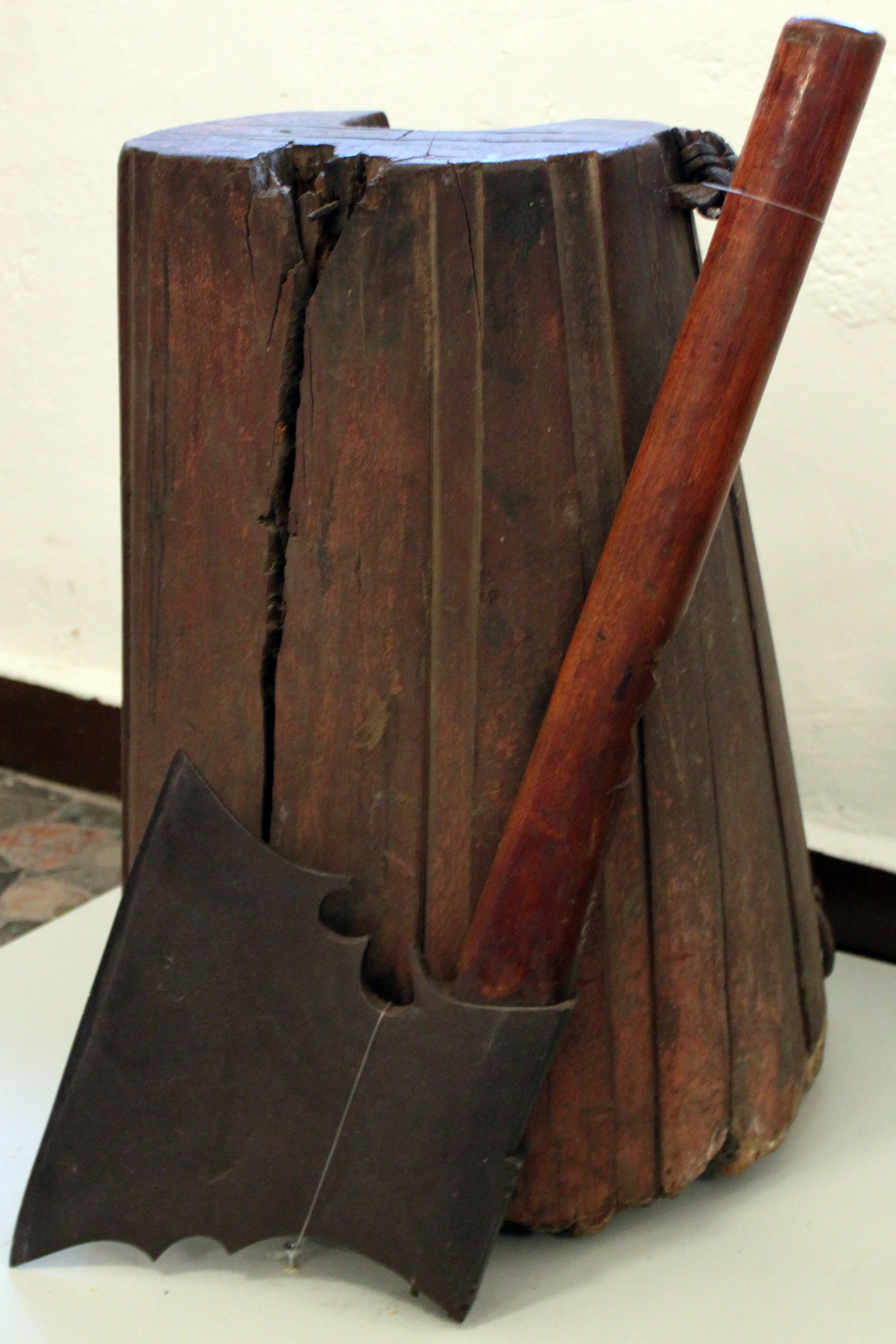 Execution block and ax from aus Zielerzig/Osternberg, 19th Century; Märkisches Museum Berlin